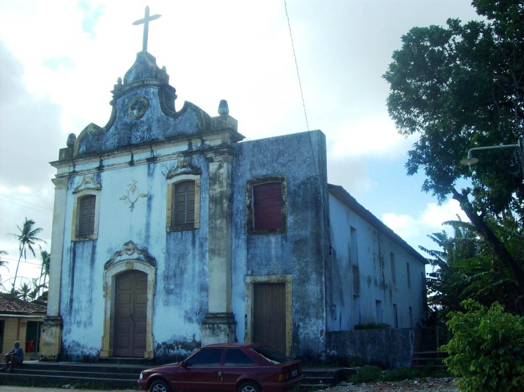 Pitimbue Beach